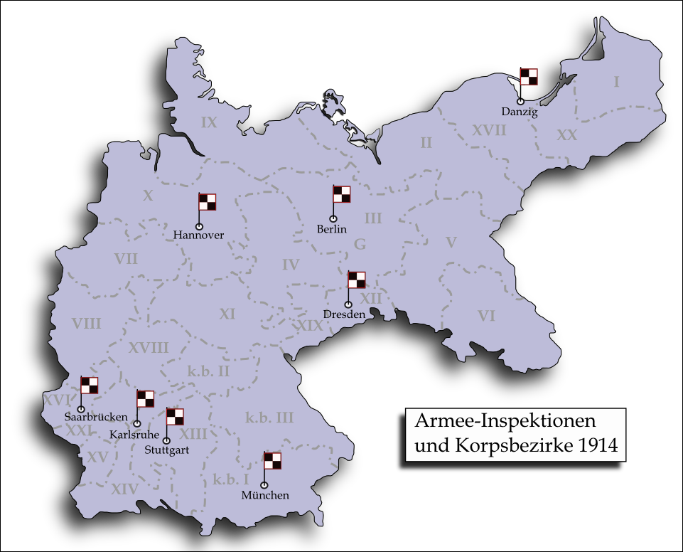 The "Militär-Inspektionen" (Military Inspektions) and "Korpsbezirke" (Corps District) of the German Imperial Army in 1914.